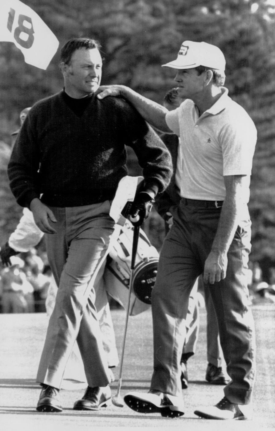 LG196 1970 Wirephoto BILLY CASPER Pro Golfer Winning Masters Tournament